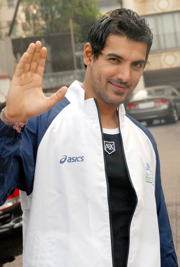 John Abraham practices for Mumbai Marathon